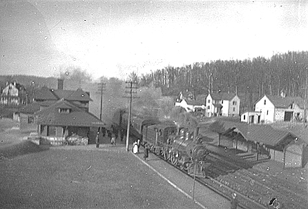 Pennsylvania Railroad southbound train on its Northern Central Railway subsidiary at the Riderwood, Maryland, station during World War I.